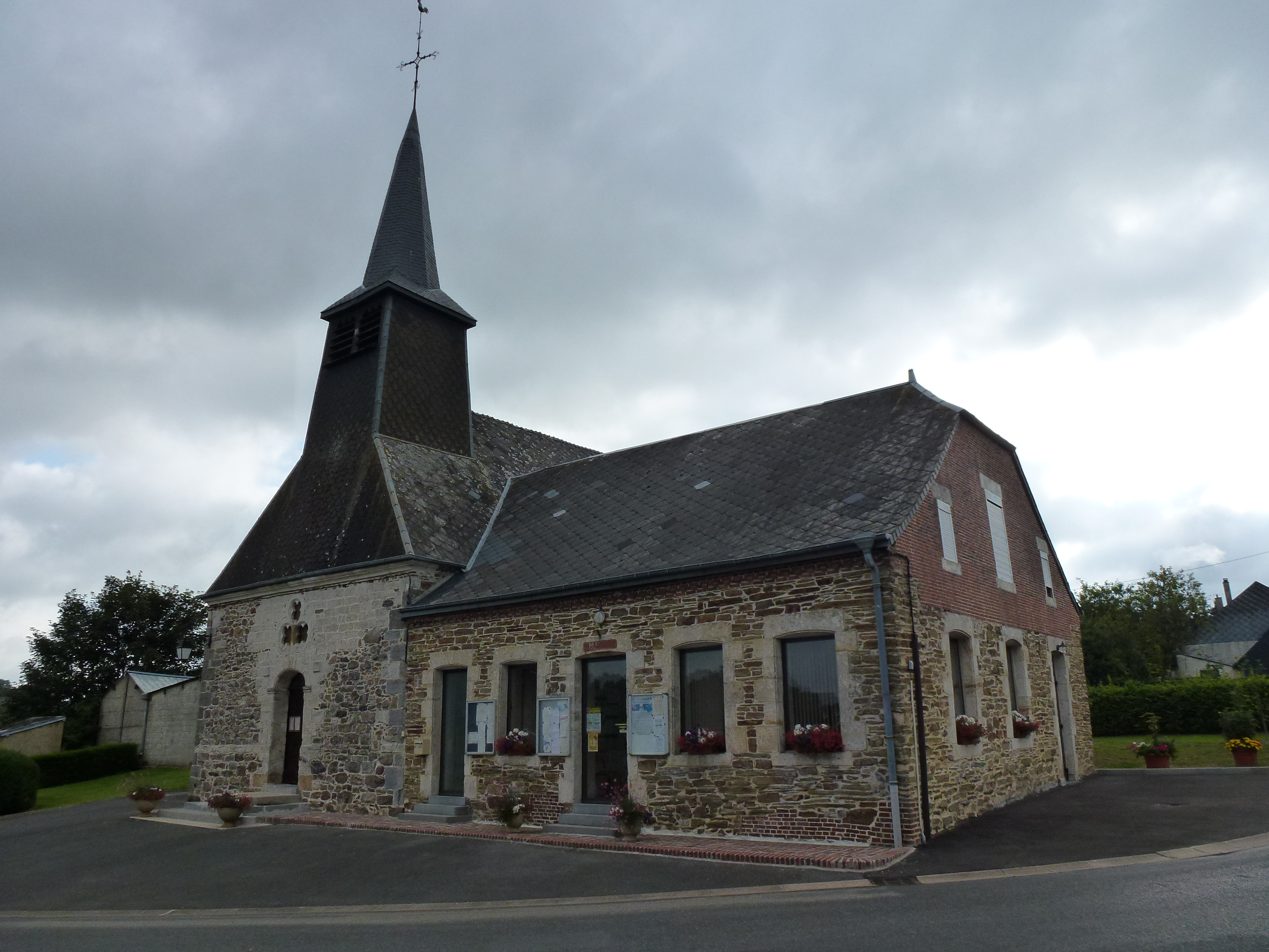 Brognon (Ardennes) église 02